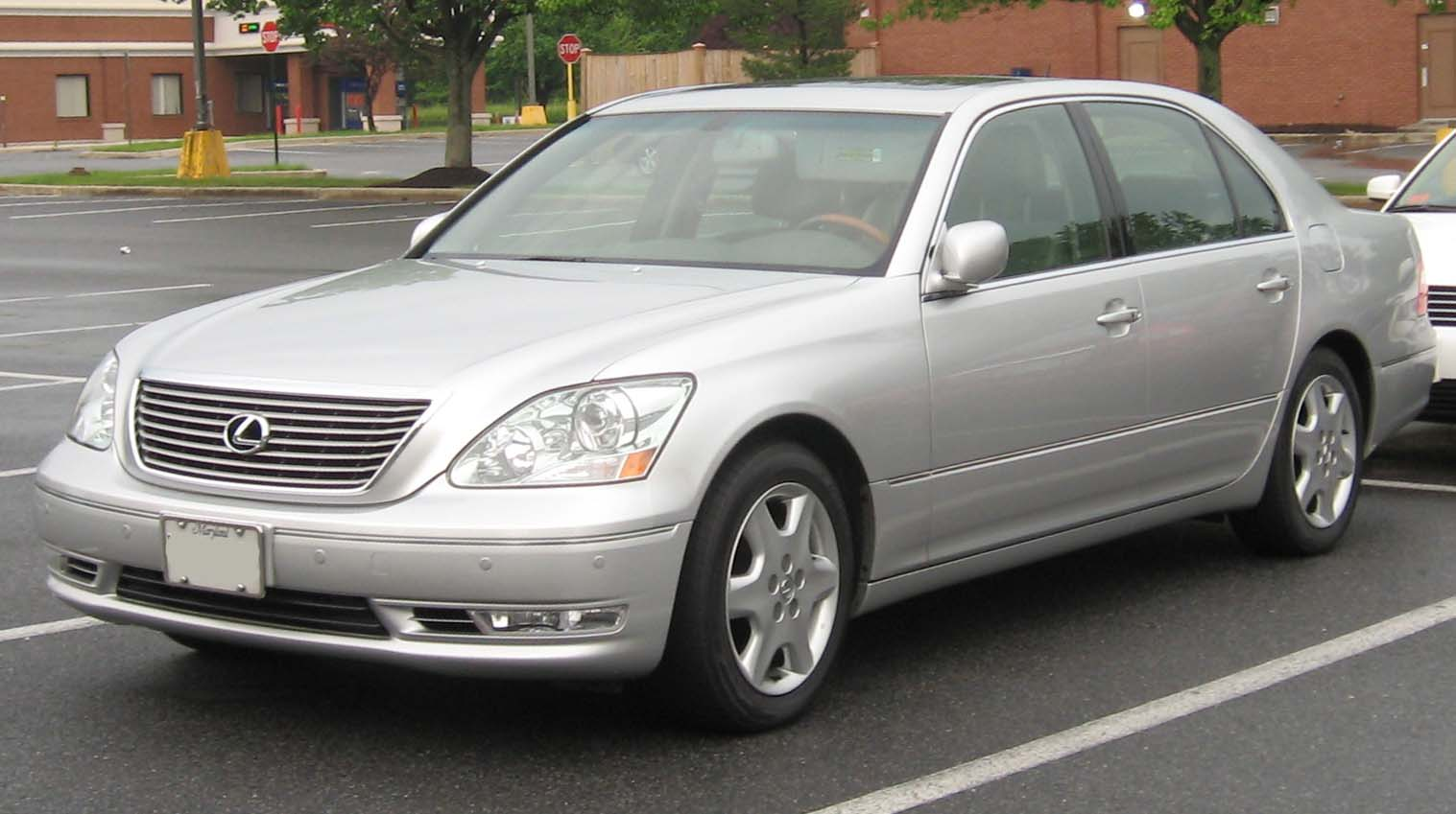 2004-2006 Lexus LS430 photographed in USA.